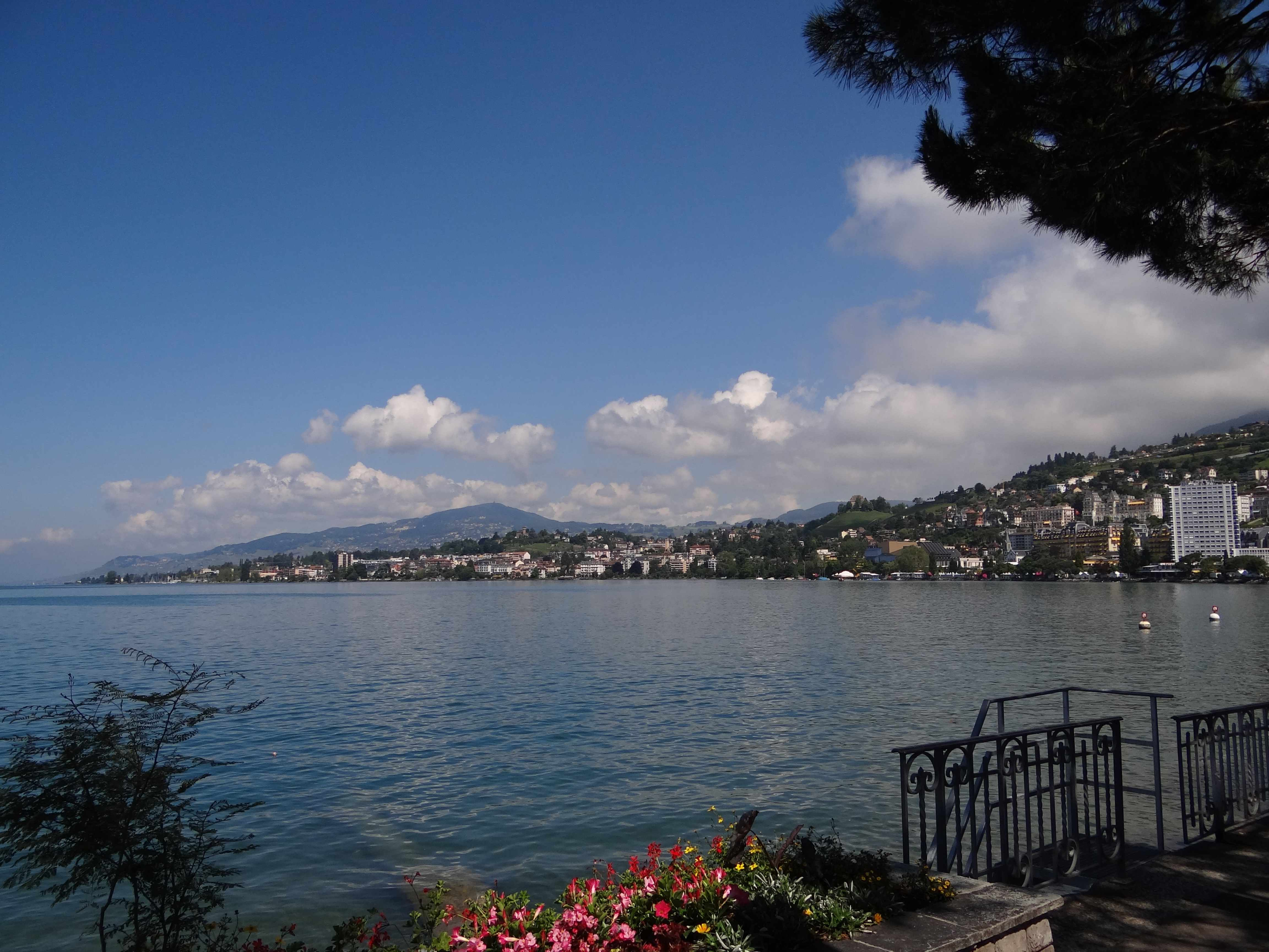 Montreux, Switzerland